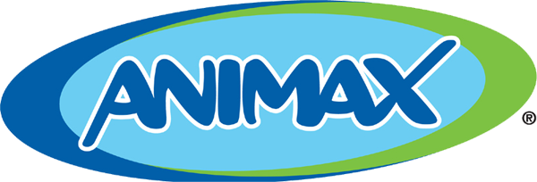 Animax old logo from 1998 to 2006.